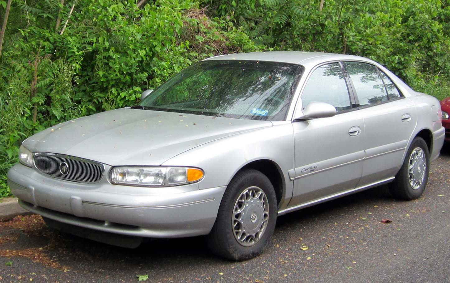 1997-2002 Buick Century photographed in Washington, D.C., USA.